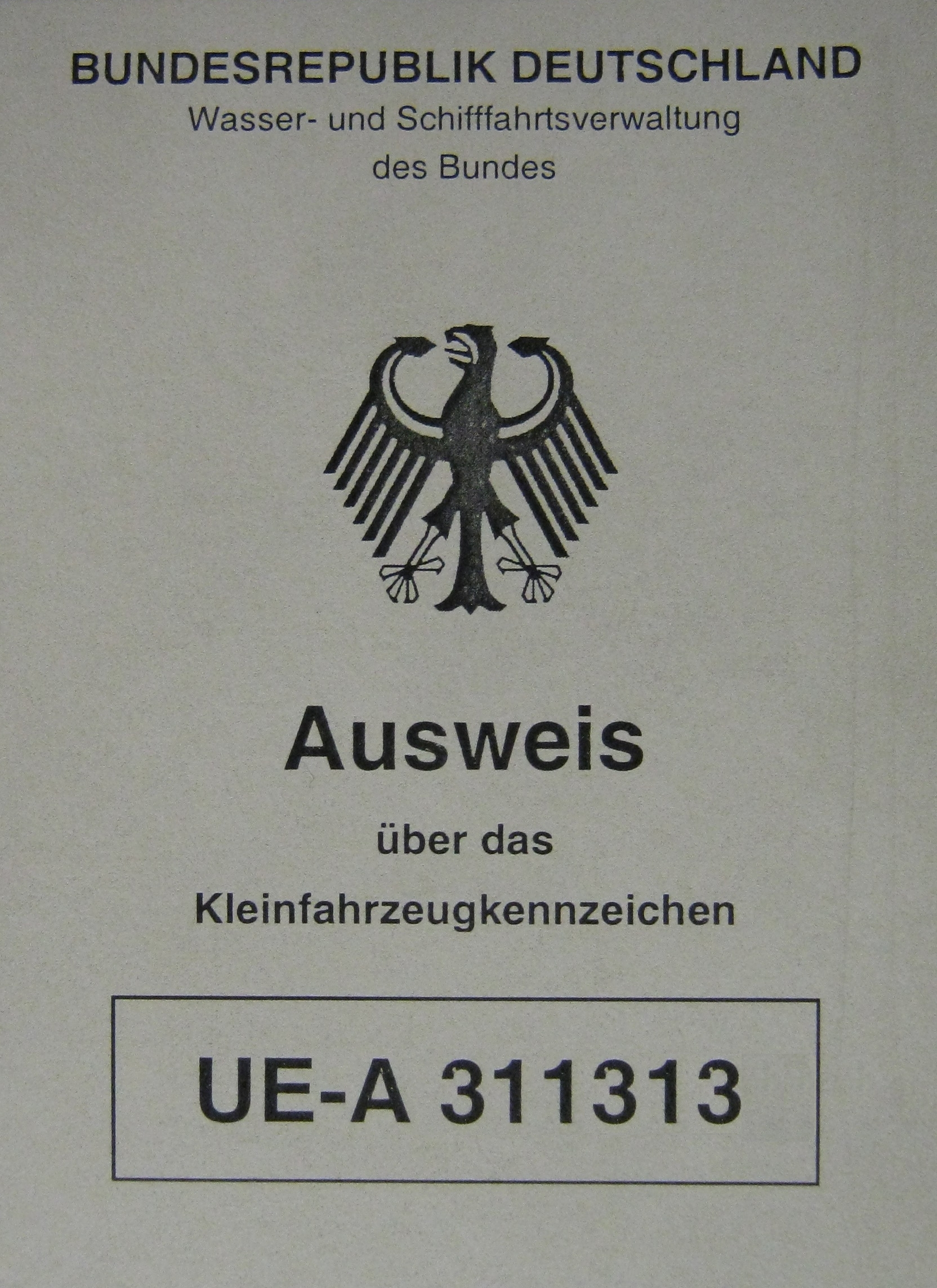 Kleinfahrzeugkennzeichen